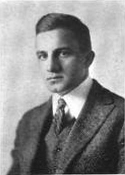 Babe Clark at Cornell University